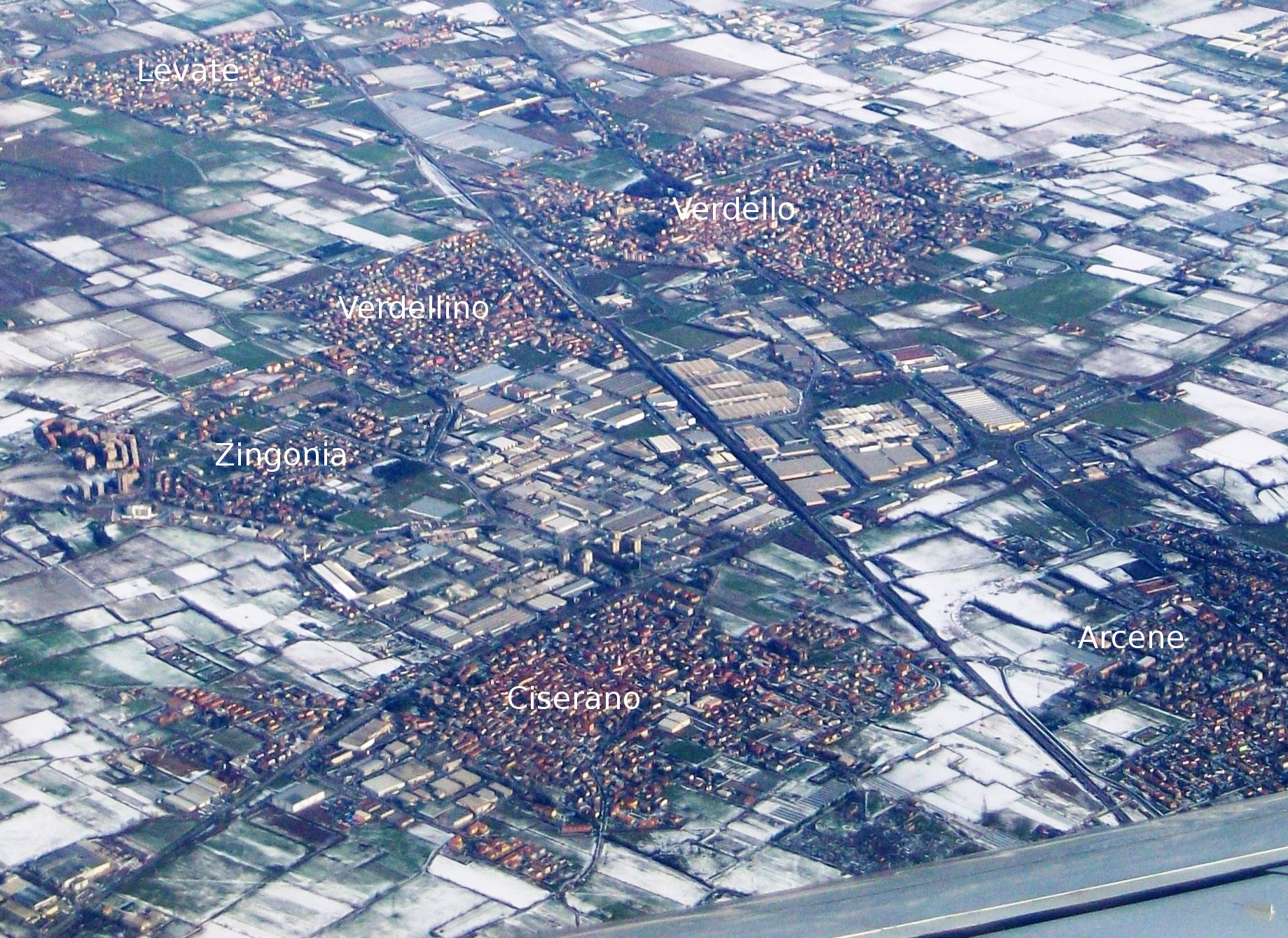 Visuale aerea di Zingonia con indicazione dei paesi